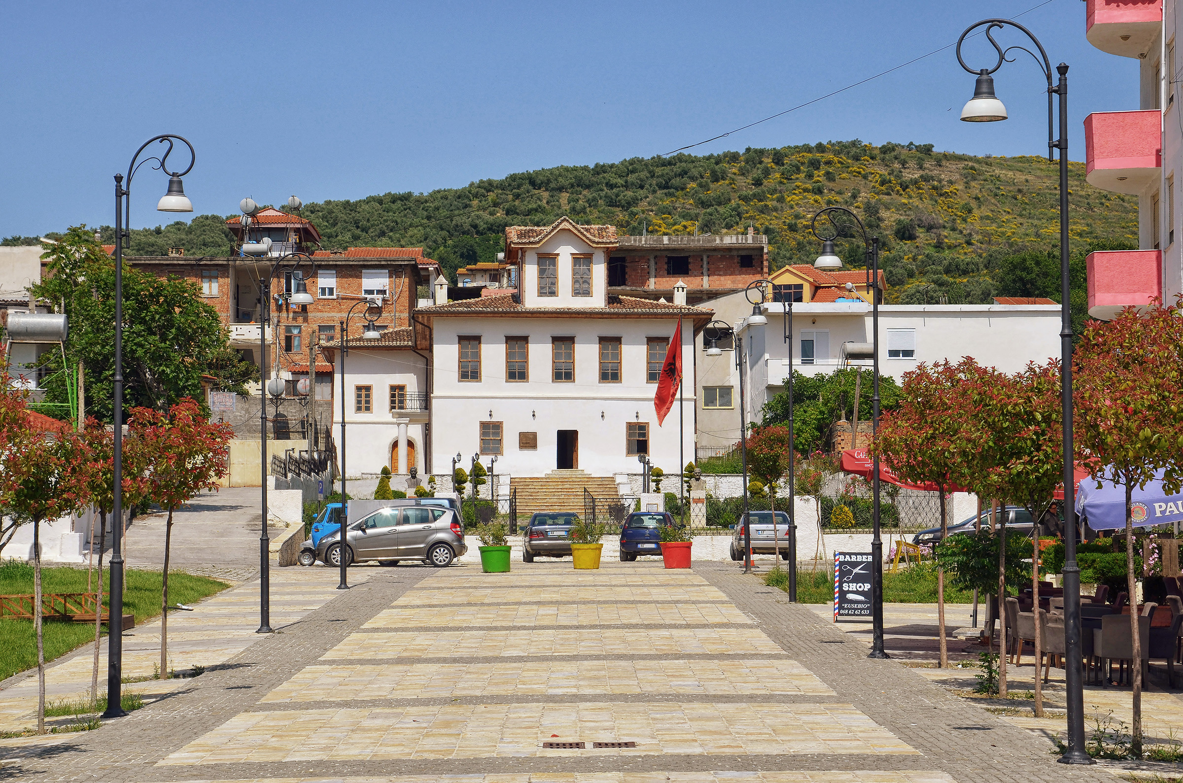 The Congress of Lushnjë Museum in Lushnjë, Albania